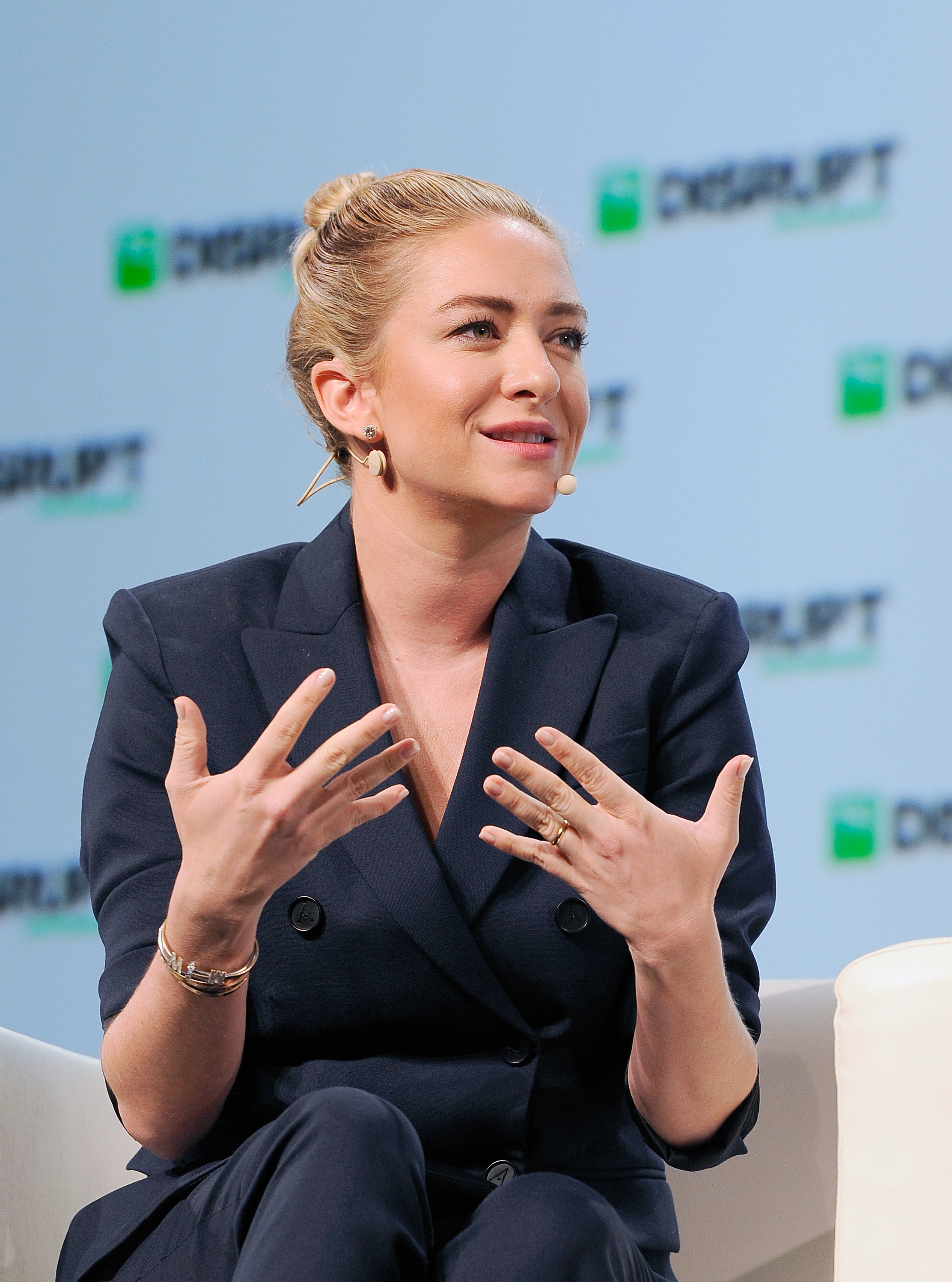 SAN FRANCISCO, CA - SEPTEMBER 06: Bumble Founder and CEO Whitney Wolfe Herd speaks onstage during Day 2 of TechCrunch Disrupt SF 2018 at Moscone Center on September 6, 2018 in San Francisco, California. (Photo by Steve Jennings/Getty Images for TechCrunch)